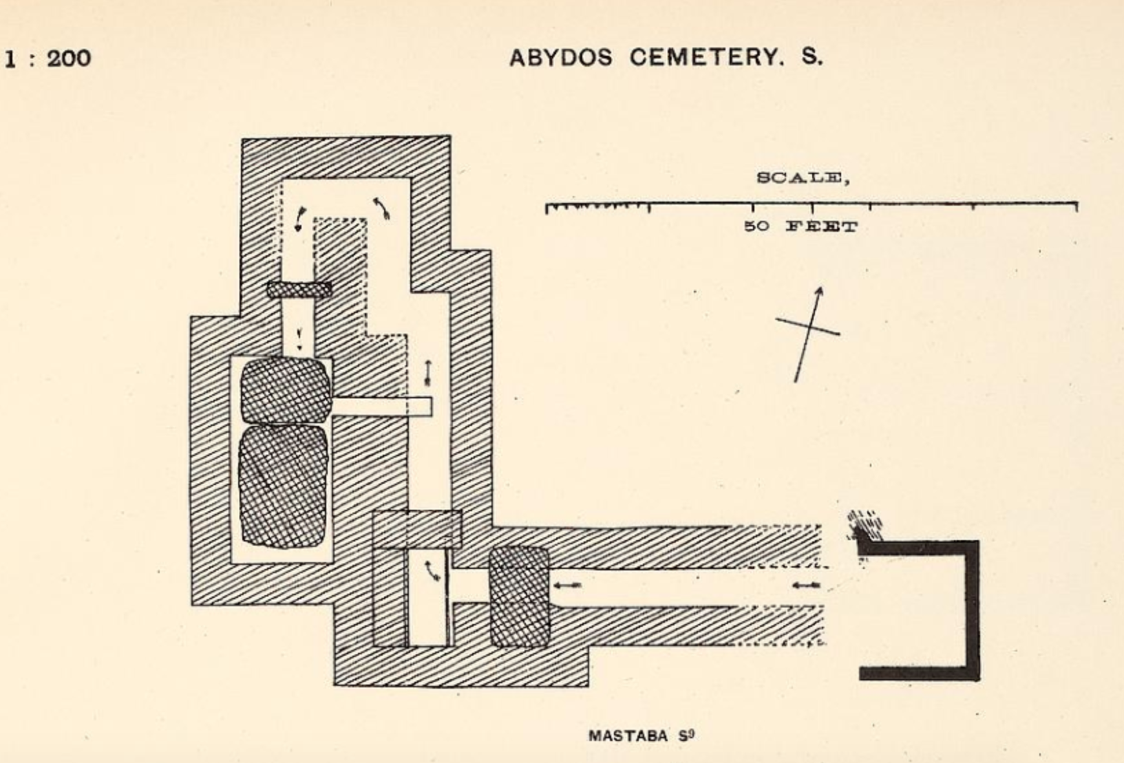 Plan of the substructures of the tomb S9 in Abydos, now believed to be that of pharaoh Neferhotep I